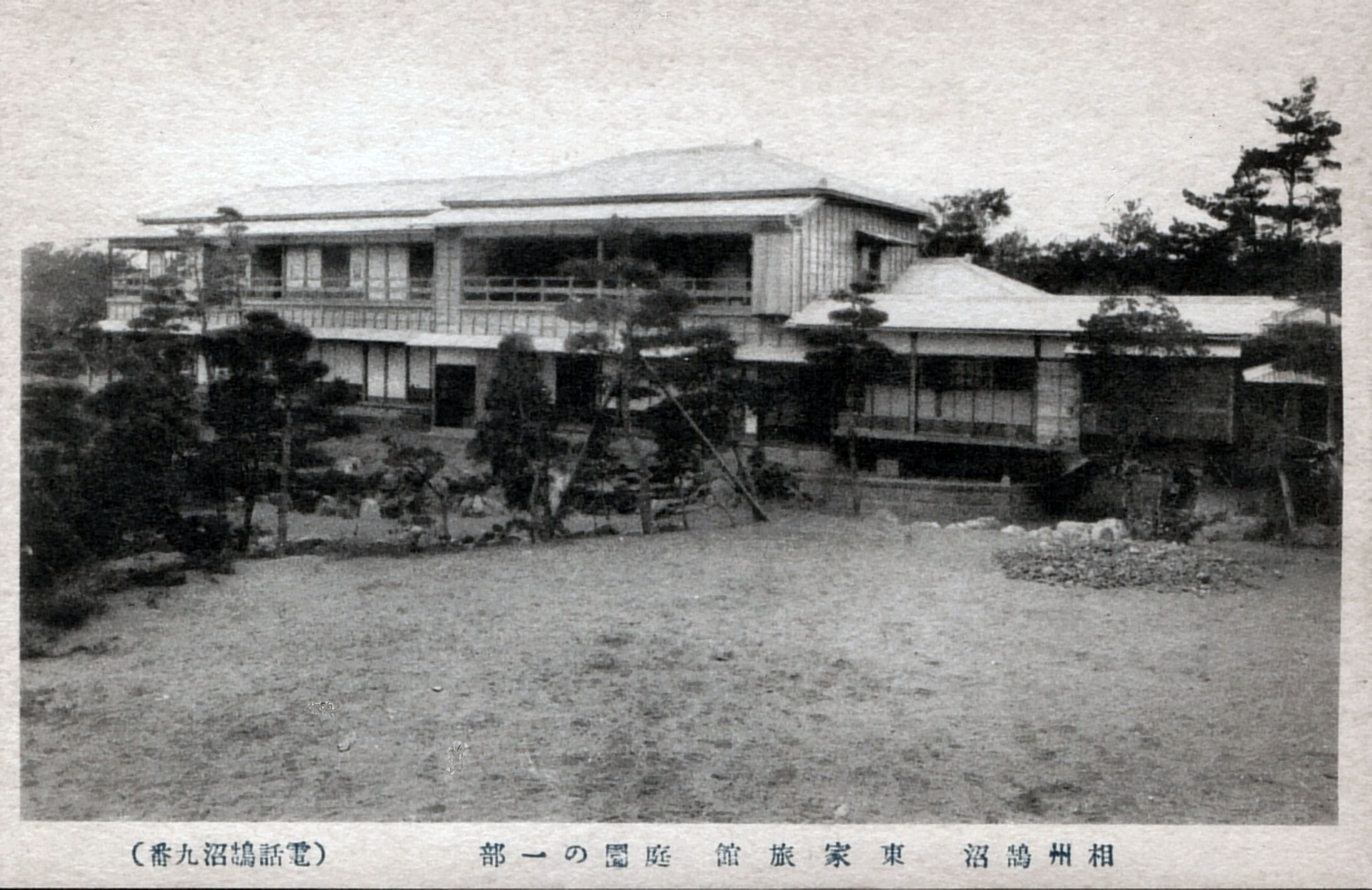 Japanese postcard showing a view of the garden of Azumaya Ryokan in Kugenuma, Fujisawa City, Kanagawa Prefecture